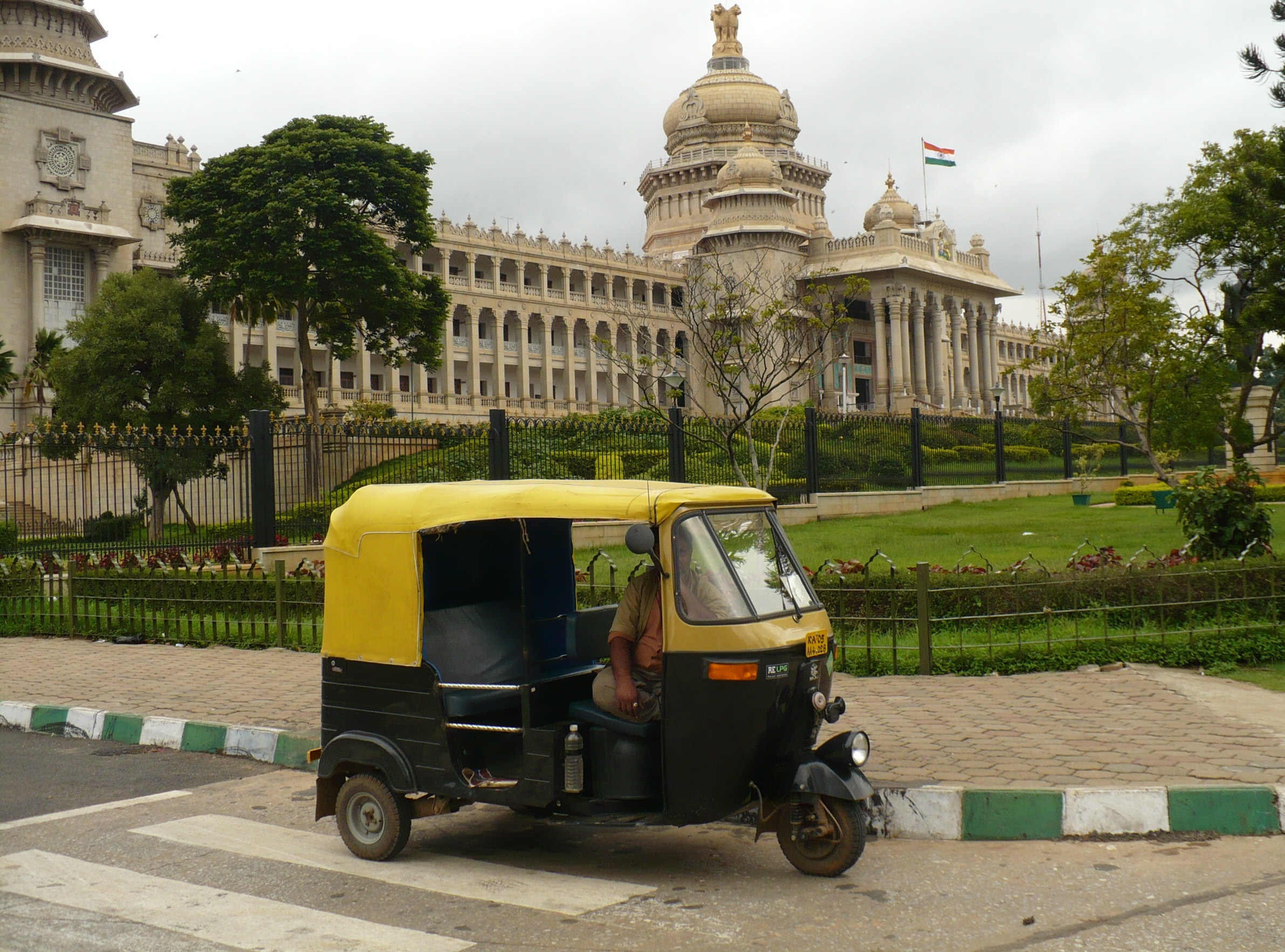 Auto Rickshaw in Bangalore, with the Vidhana Soudha in the background